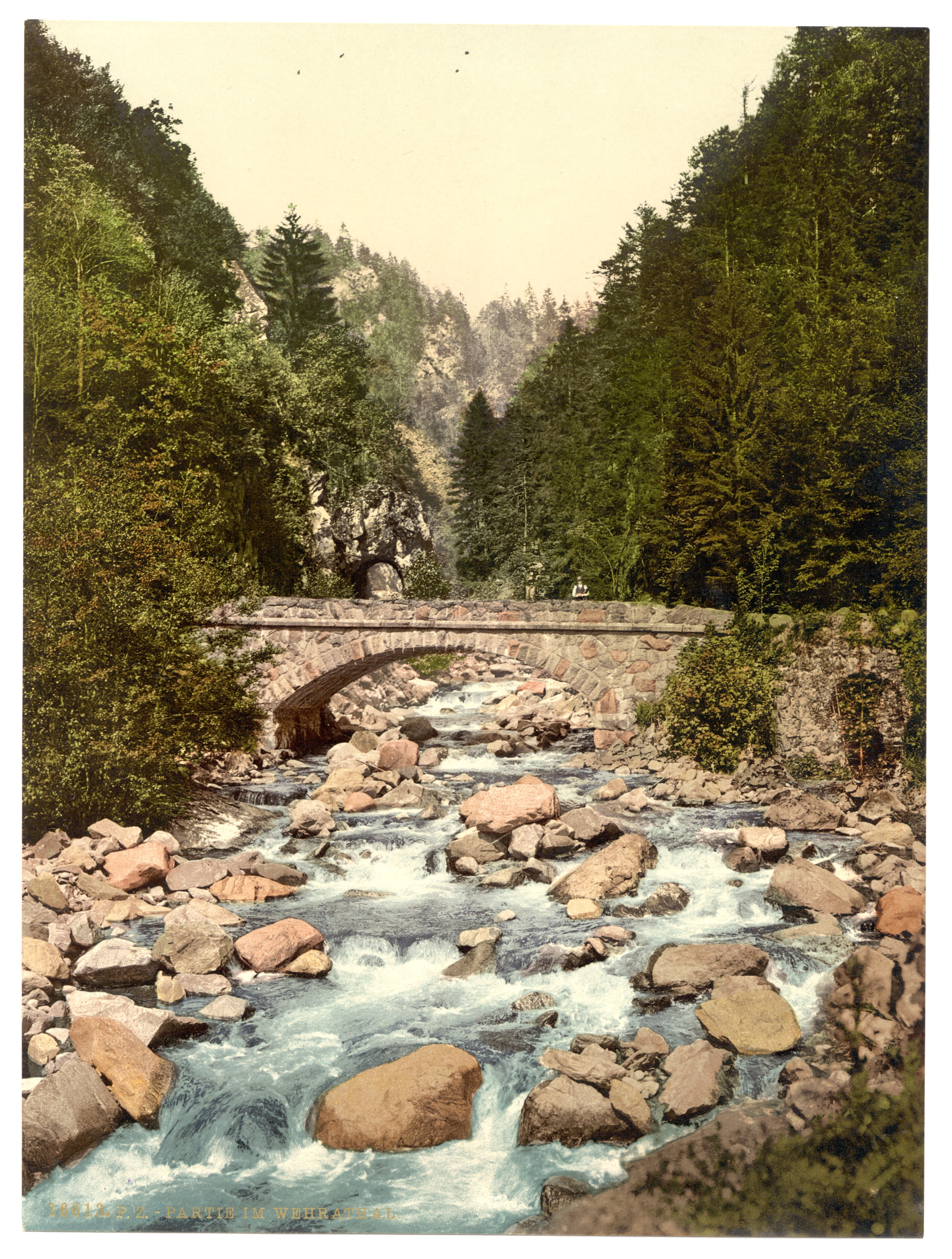 Title from the Detroit Publishing Co., catalogue J-foreign section. Detroit, Mich. : Detroit Photographic Company, 1905.; Print no. "16613".; Forms part of: Views of Germany in the Photochrom print collection.